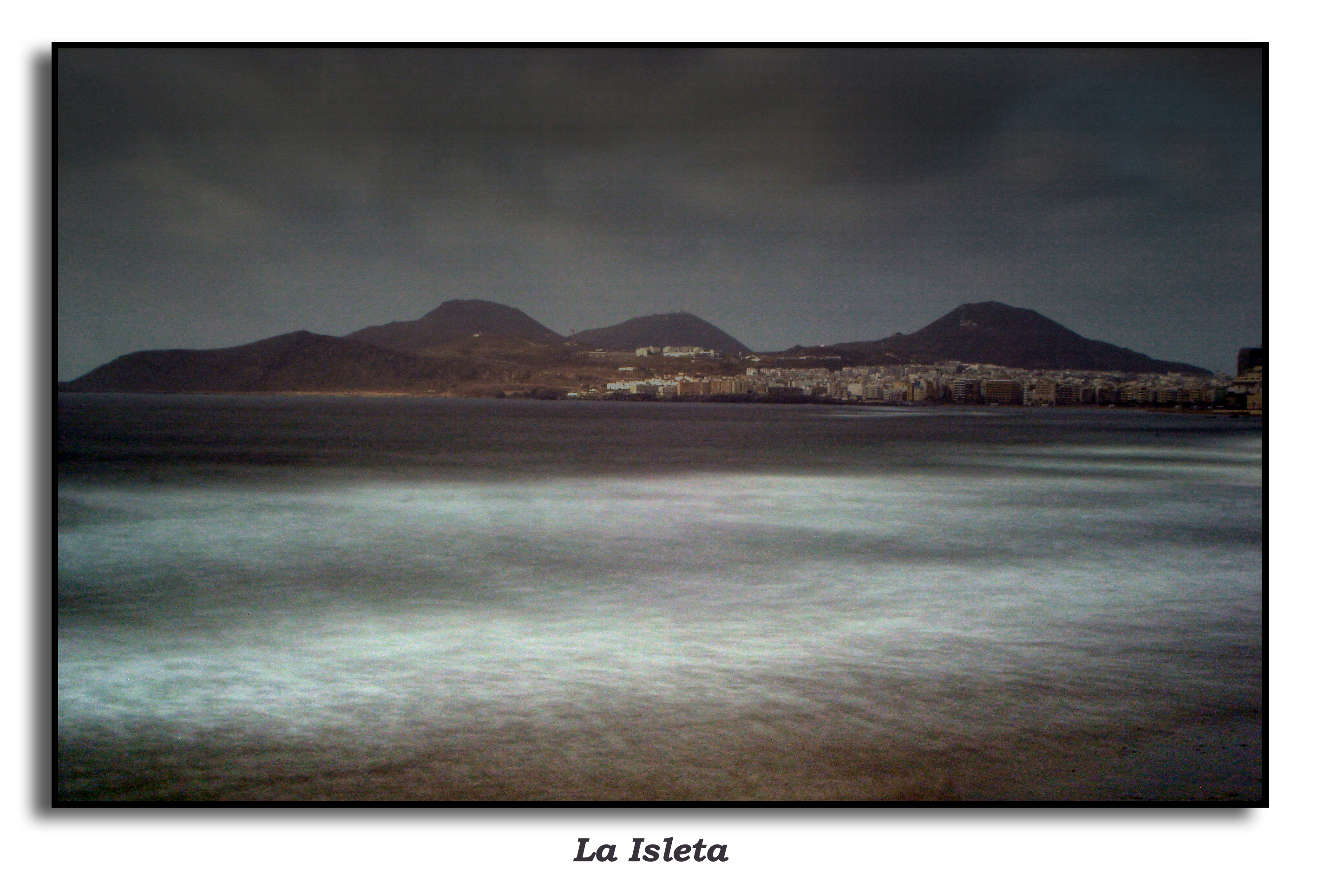 La Isleta (Gran Canaria) 4 Dn8 filters, 30 sec exposure.